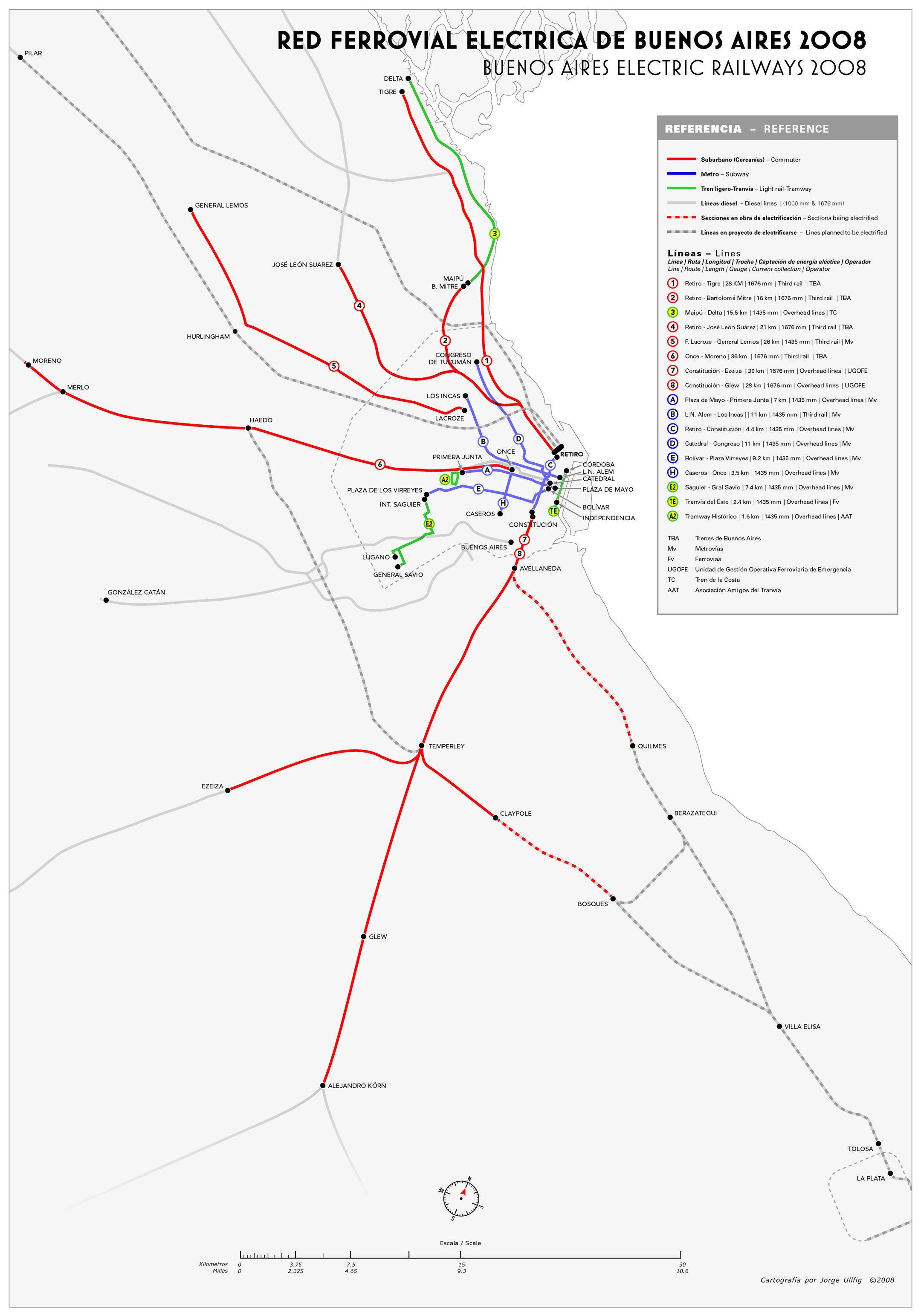 Map of the Buenos Aires Electric Railways 2008